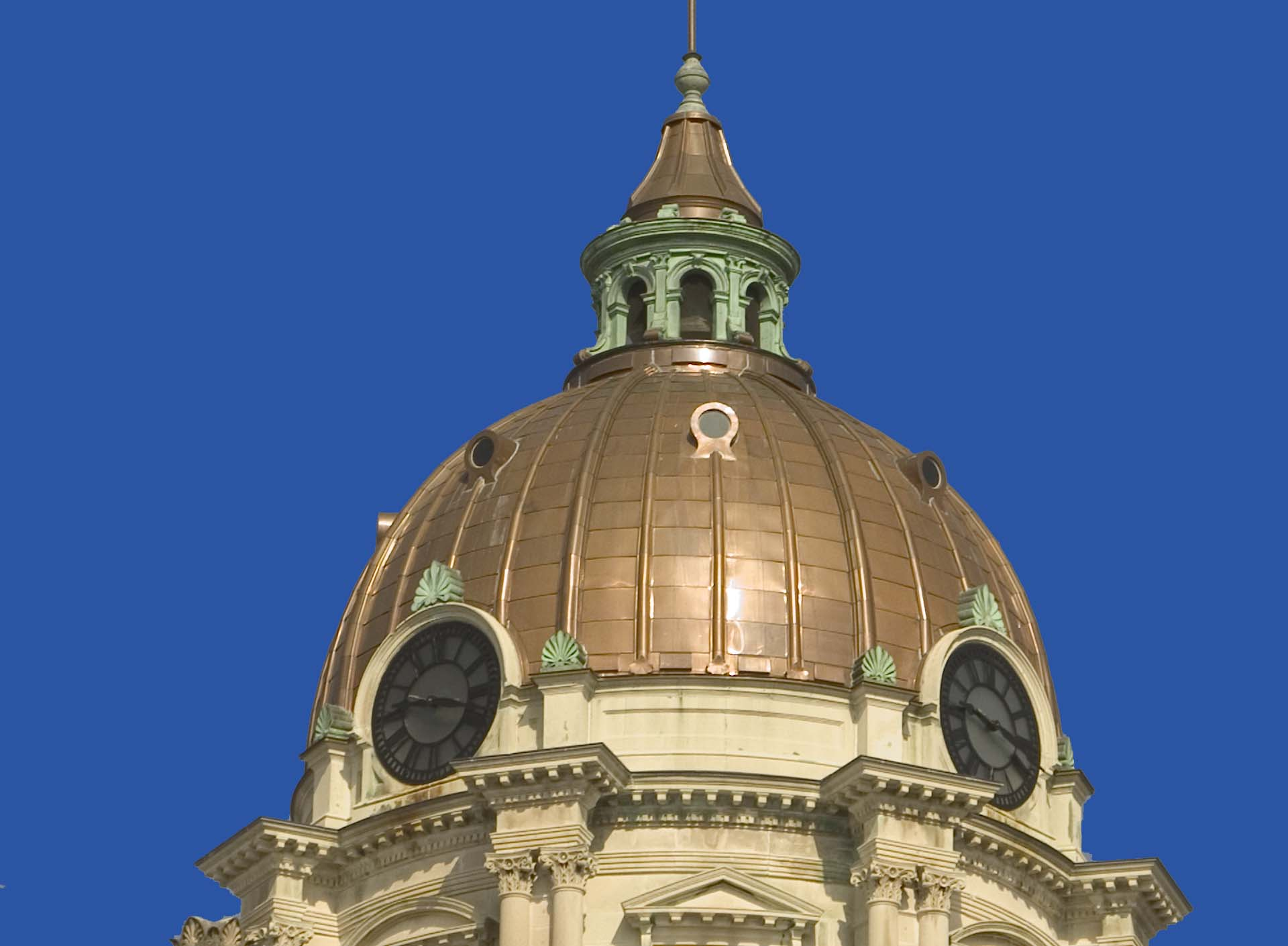 The Dome of the McLean County Courthouse after its renovation